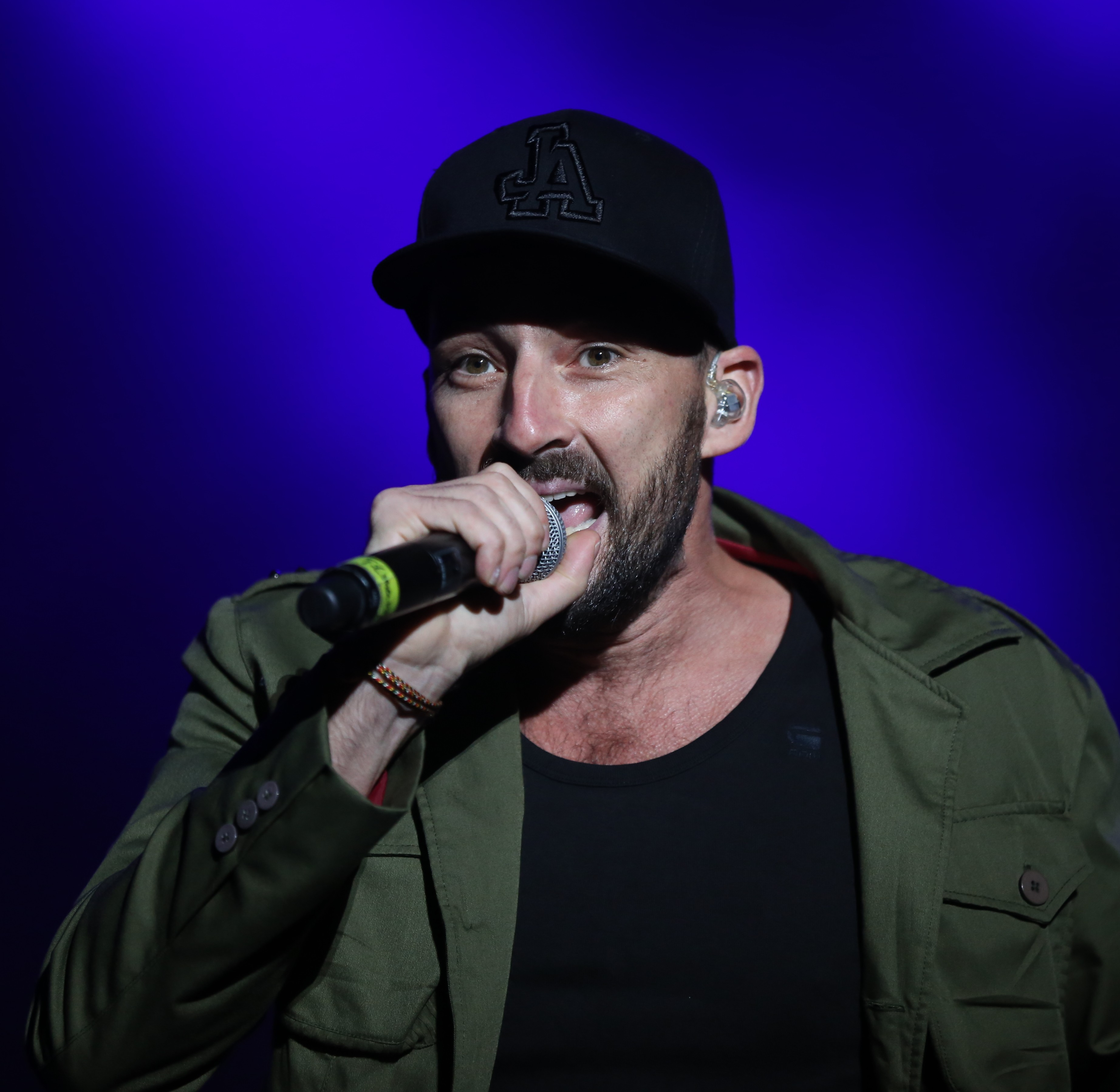 Gentleman at Chiemsee Reggae Summer Festival 2013